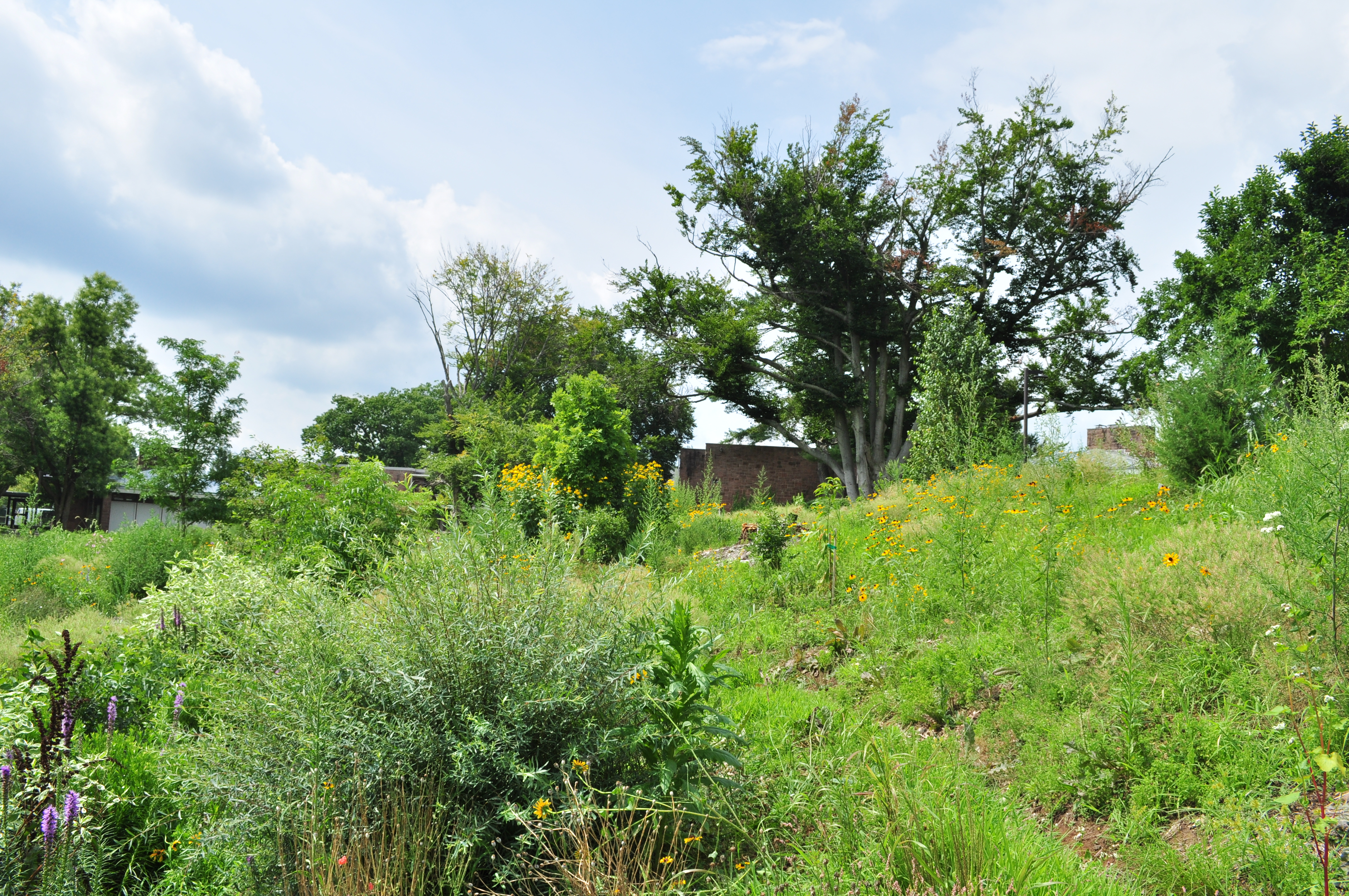 West College/WestCo, Wesleyan University, Middletown, Connecticut, USA. West College is a dorm with a countercultural tradition dating back to the 1960s. In 2012 its courtyard was relandscaped on a more environmentally sound basis.